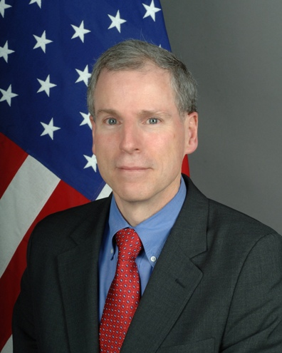 State Dept portrait of Robert Stephen Ford, United States Ambassador to Syria